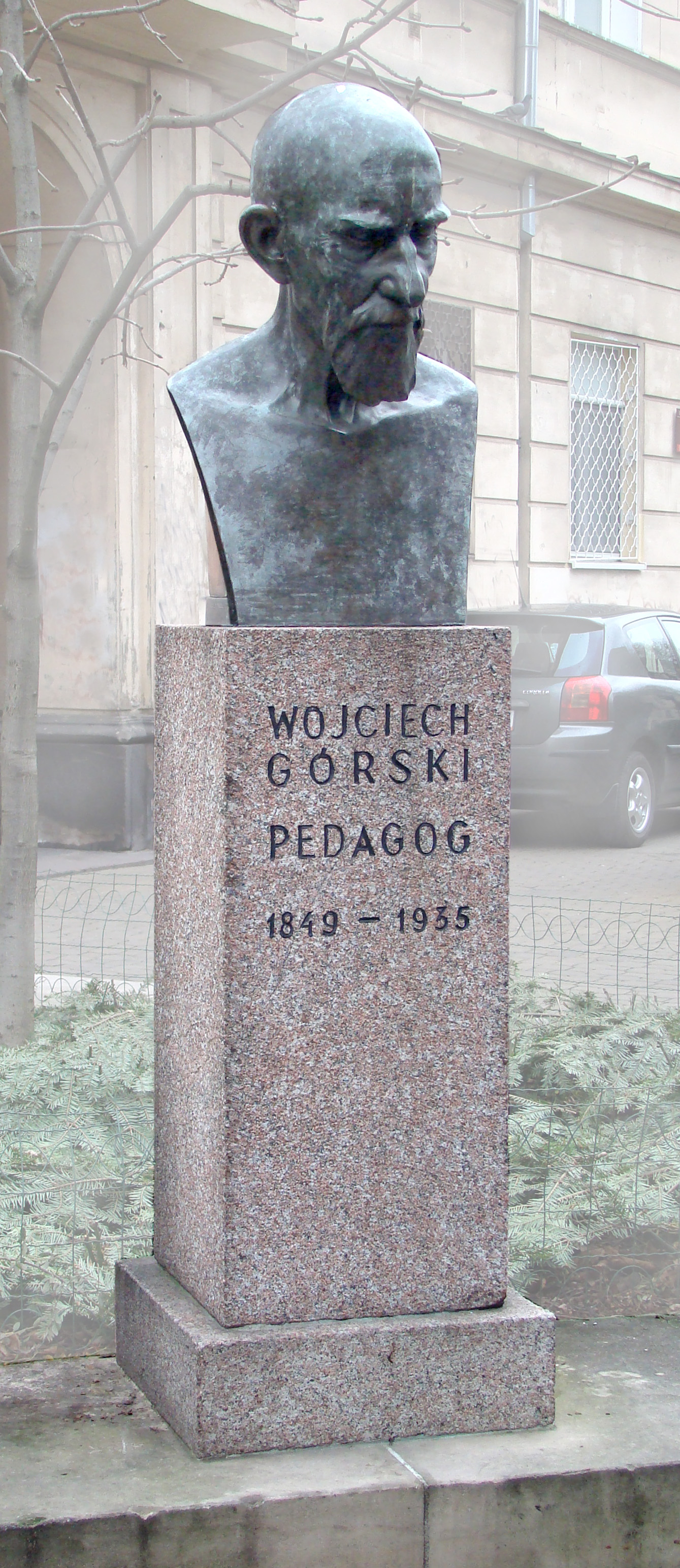 Wojciech Górski, Polish educationist